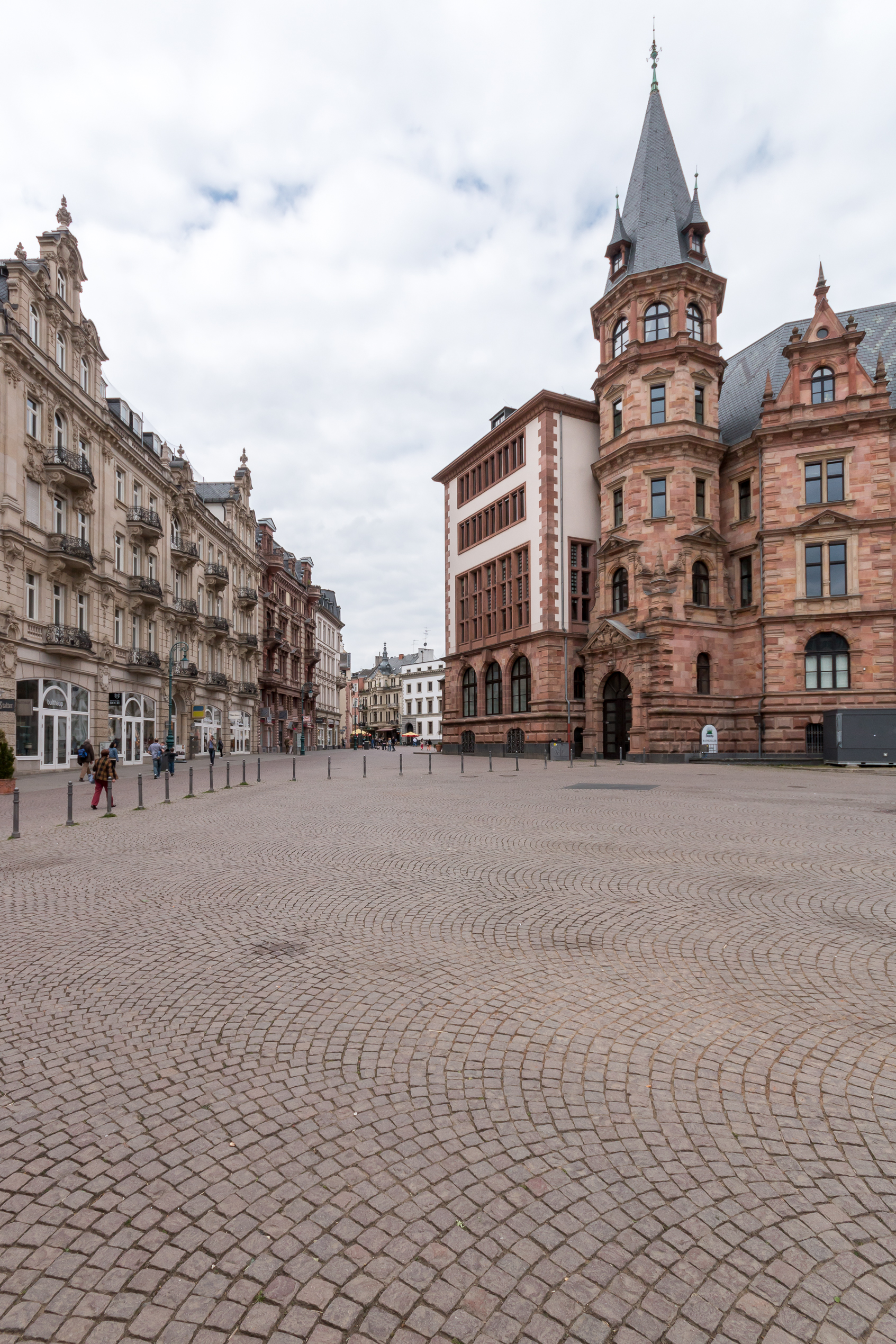 The Marktstraße leaving the place Dernsches Gelände in Wiesbaden. On the left the former hotel Grüner Wald (Marktstraße 10), on the right the town hall Neues Rathaus